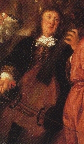 The only known likeness of Dieterich Buxtehude. 1674, Johannes Voorhout (detail).